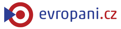 Long logo of the political party evropani.cz in the Czech Republic